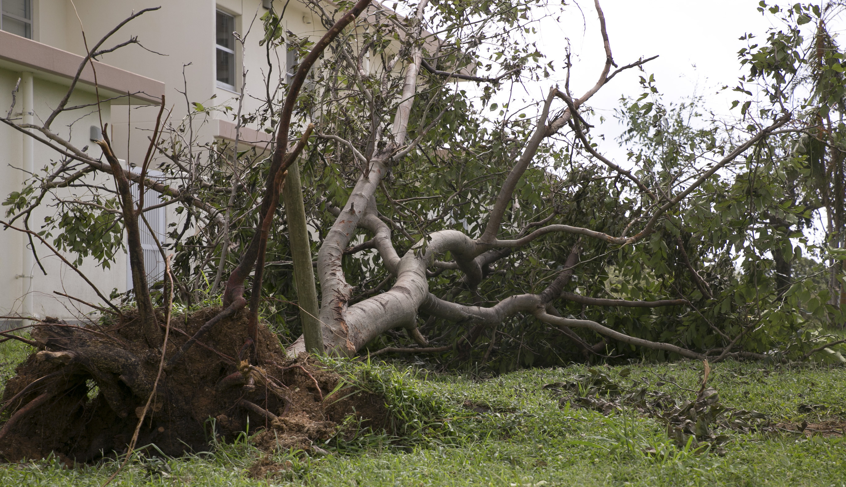 Typhoon Neoguri’s winds knocked down trees July 8-9 at Camp Foster, and caused minor damage across U.S. military installations on Okinawa. According to the Okinawa Prefectural Government, the typhoon injured more than 20 people, uprooted trees, caused flooding, and knocked out power for more than 100,000 people on the island. U.S. military installations on Okinawa were affected by scattered power outages, low-lying area flooding and debris. Infrastructure in Okinawa, both on and off base, is designed to survive the high winds of a typhoon. Prior the storm’s arrival, service members stock up on food, water and emergency supplies for use as necessary, and during the storm remain indoors to avoid risk of injury from high winds. Base officials also pre-stage emergency response teams with heavy equipment and tactical vehicles in order to be able to respond quickly should the need arise. The typhoon cleared Okinawa June 9 on a course toward mainland Japan. (U.S. Marine Corps photo by Lance Cpl. Robert Williams Jr./ Released)